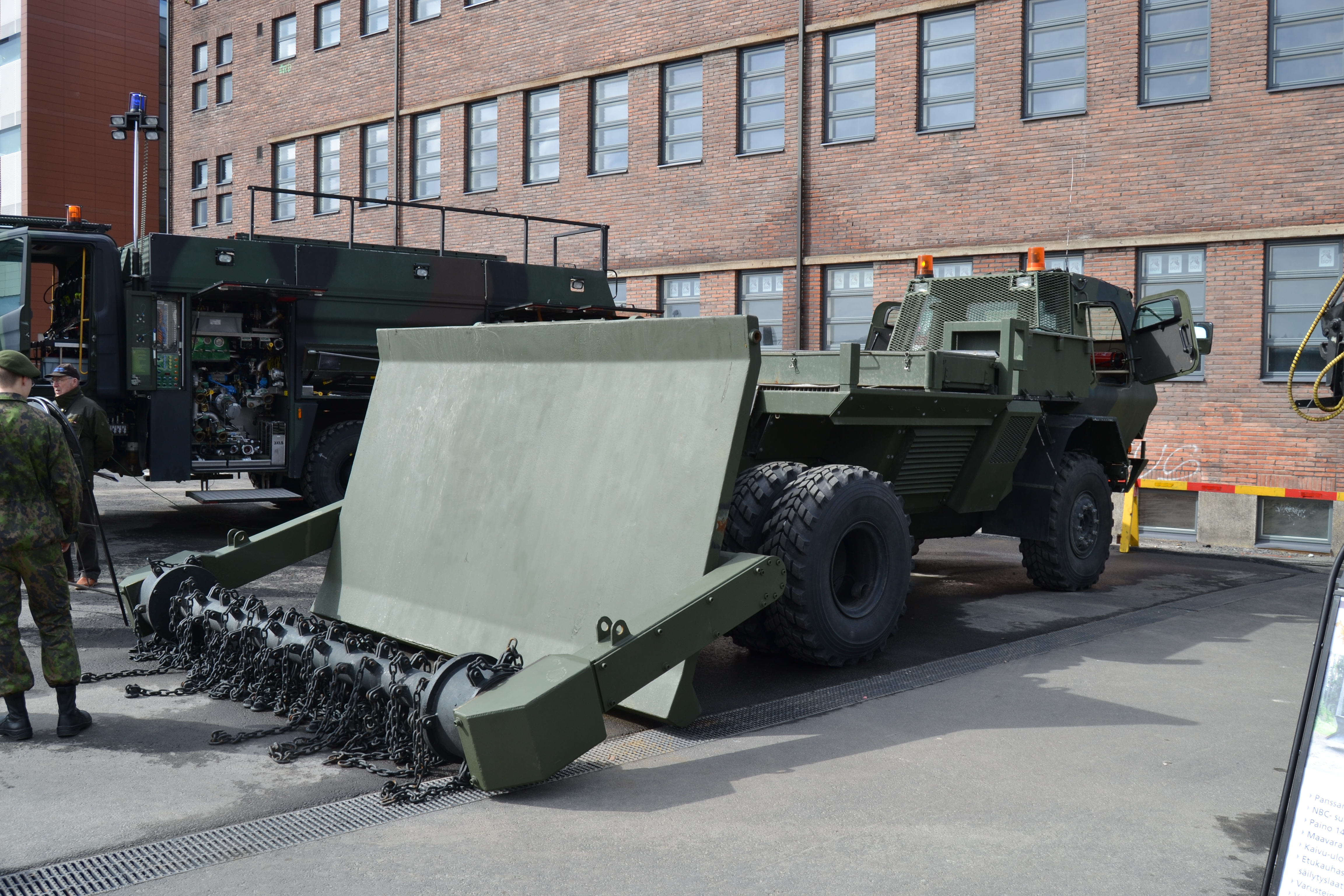 Sisu RA-140 DS "Raisu" demining vehicle of Finnish Defence Forces in Lutakko, Jyväskylä, Finland